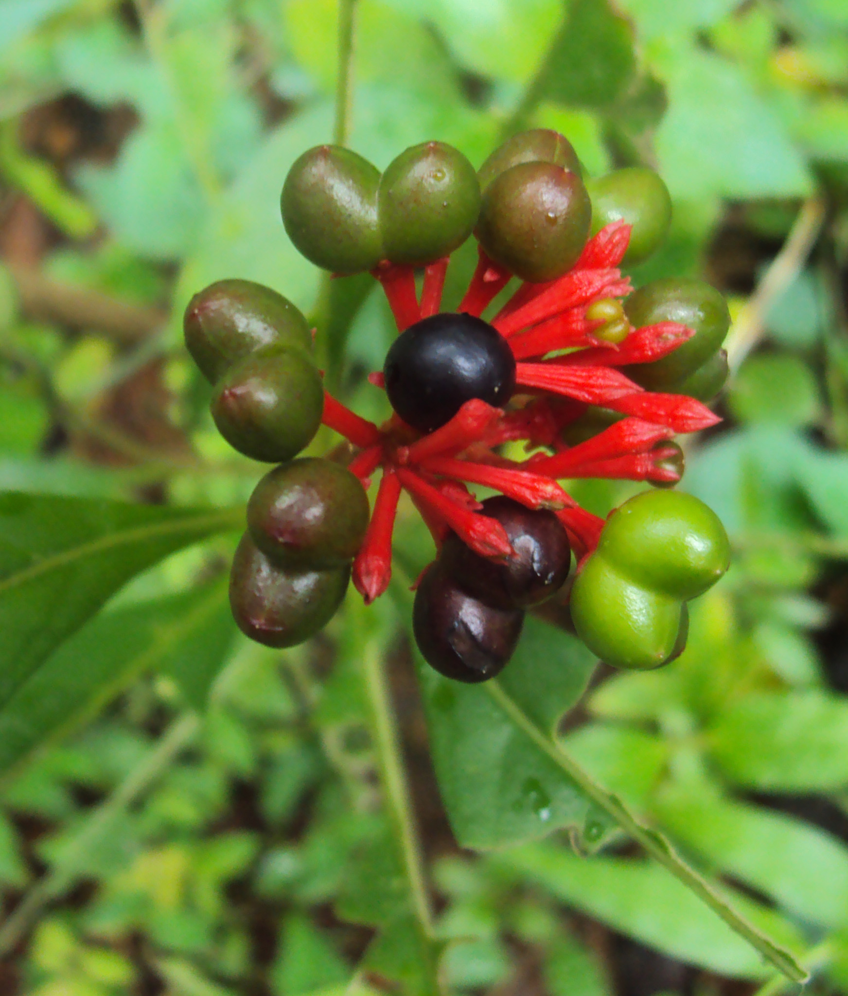 rauwolfia serpentina - സര്‍പ്പഗന്ധി